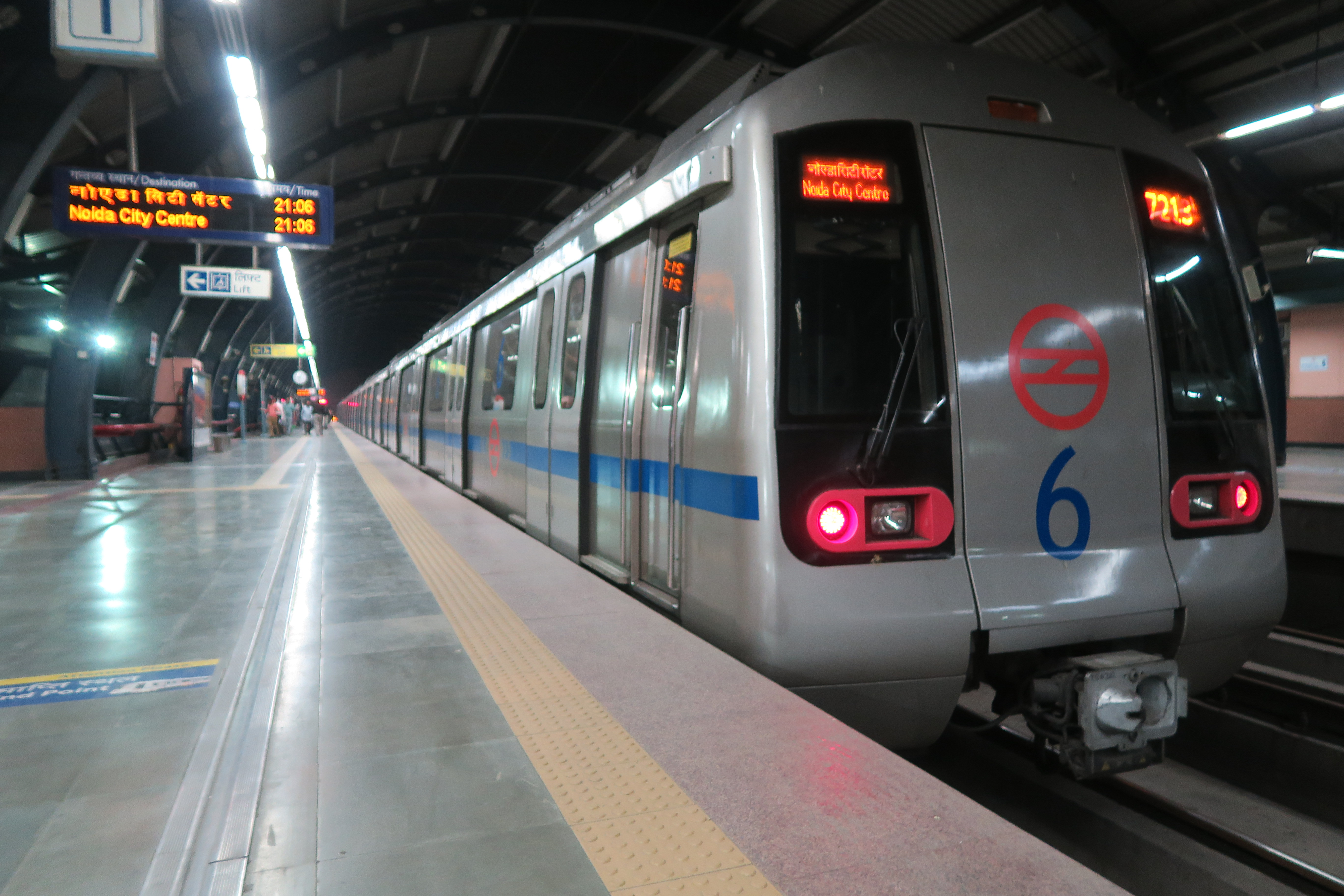 Cars of Delhi Metro blue Line.